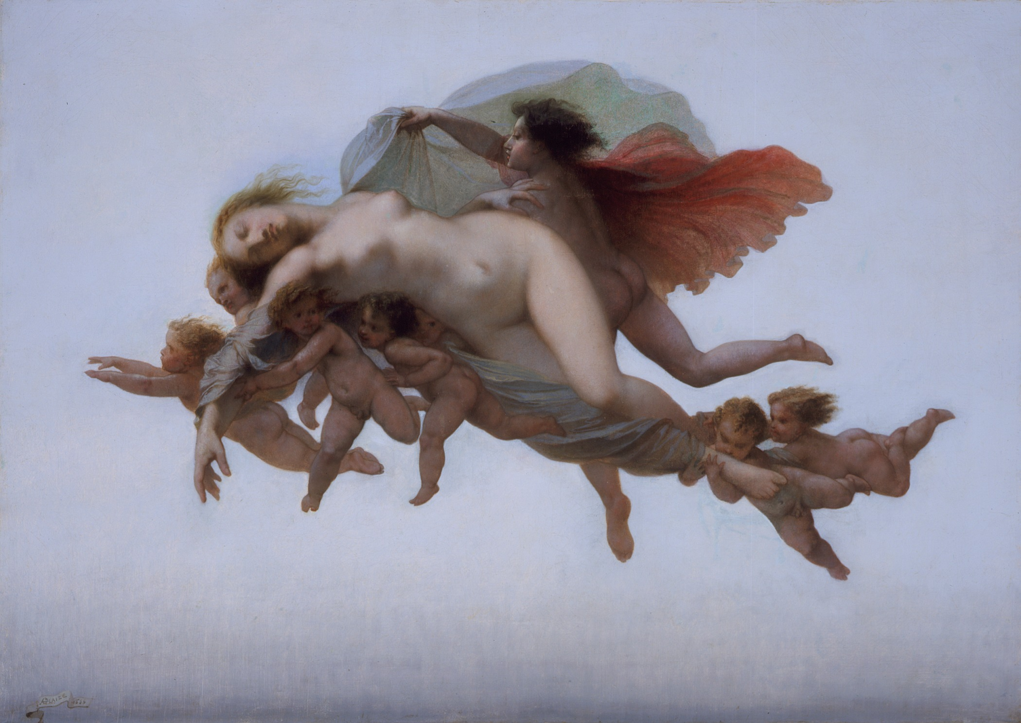 France, 1856 Paintings Oil on canvas 27 7/8 x 36 1/2 in. (70.80 x 92.71 cm) Gift of Laurie and Peter Fusco in honor of J. Patrice Marandel (AC1997.108.1) European Painting